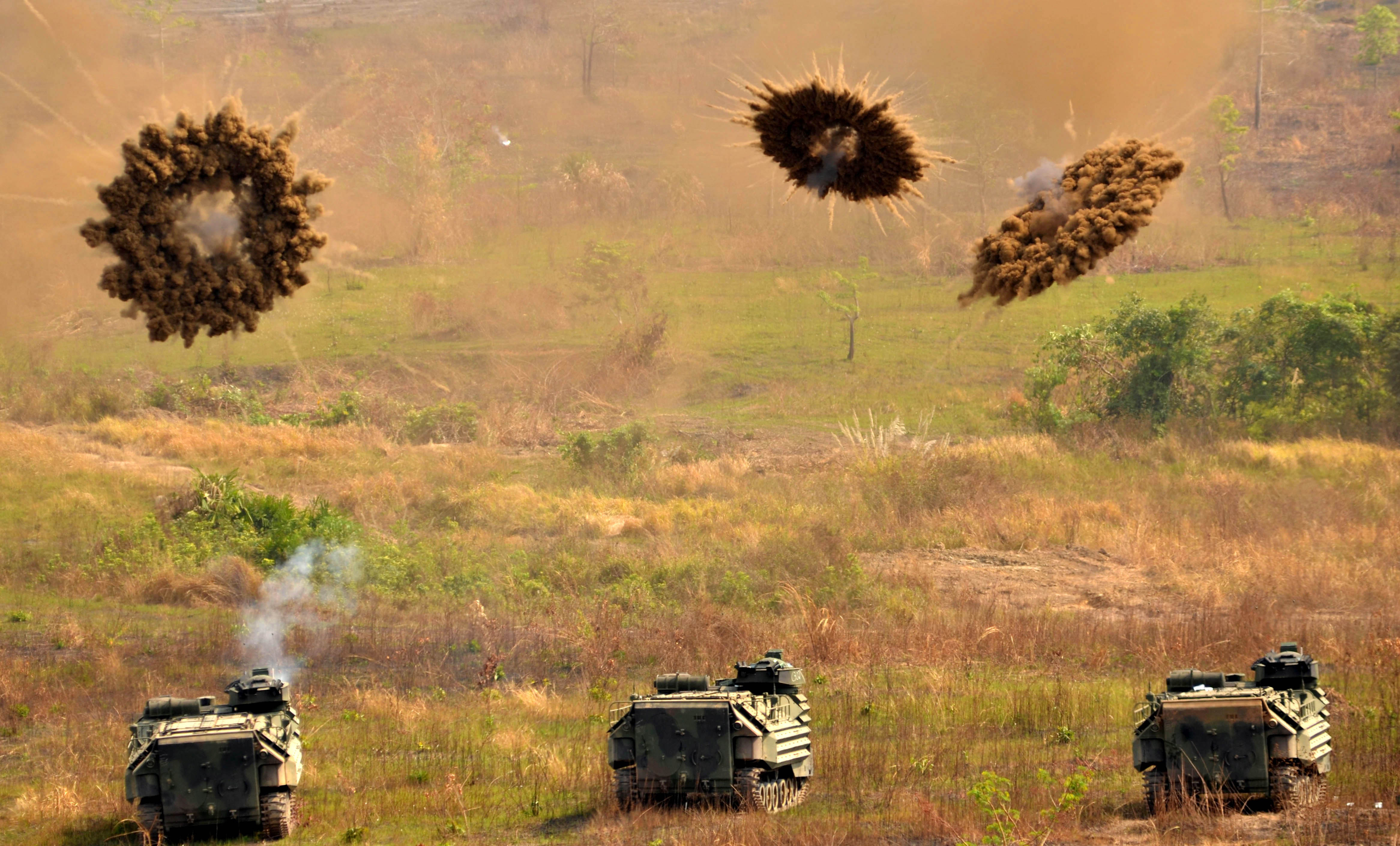 Marines with Combat Assault Battalion, Ground Combat Element, 3rd Marine Expeditionary Brigade Forward, III Marine Expeditionary Force, in amphibious assault vehicles train with smoke grenades here Feb. 11, 2011. The training evolution also included courses of fire with the M2 .50 caliber heavy machine gun and the Mk19 automatic grenade launcher at a newly-constructed range built for multinational training by Marines from 4th Marine Regiment, 3rd Marine Division, III MEF, and Combat Assault Battalion, 3rd MarDiv, both assigned to GCE during Exercise Cobra Gold 2011.Cobra Gold 2011 is a yearly multinational, joint training exercise designed to improve partner nation interoperability.